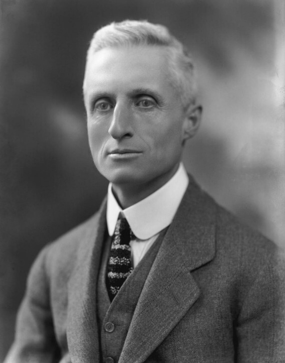 Sir Charles Alfred Bell, KCIE CMG (October 31, 1870 – March 8, 1945) was the British Political Officer for Bhutan, Sikkim and Tibet.